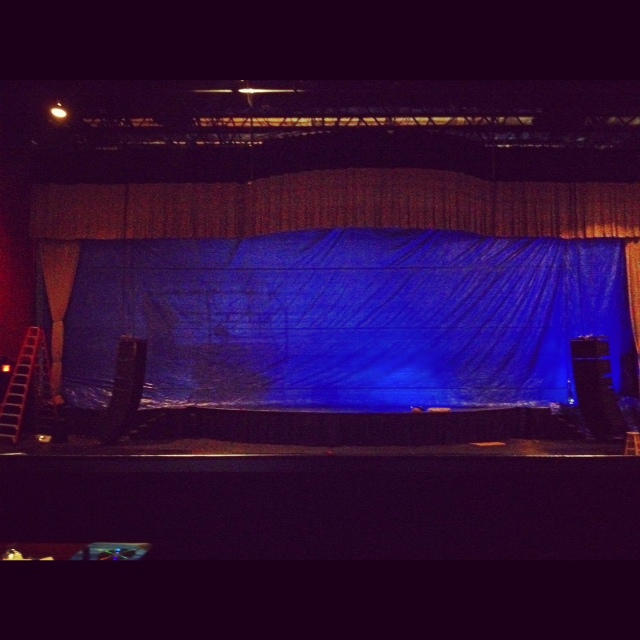 A picture of the recent renovations being made in The Plaza Live